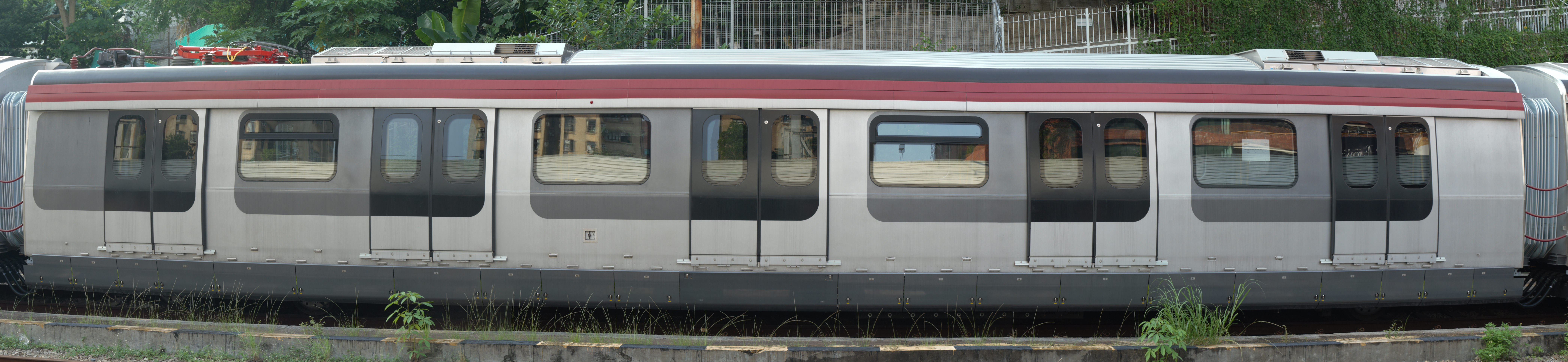 MTR East Rail Line Hyundai Rotem EMU - Compartment P004 - Side (with pantograph)